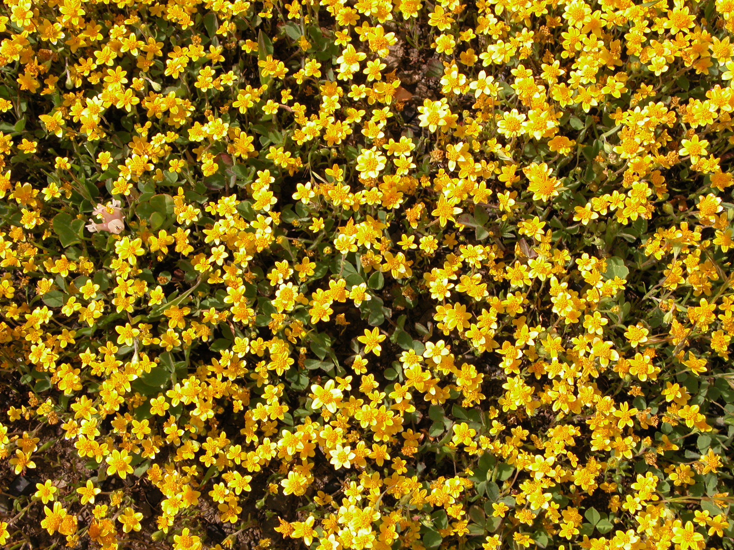 Wildflowers over a bed of bullet shells.